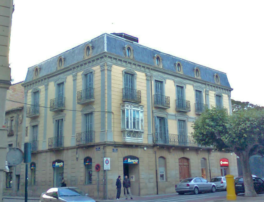 A beautiful building in Tafalla (Nafarroa)